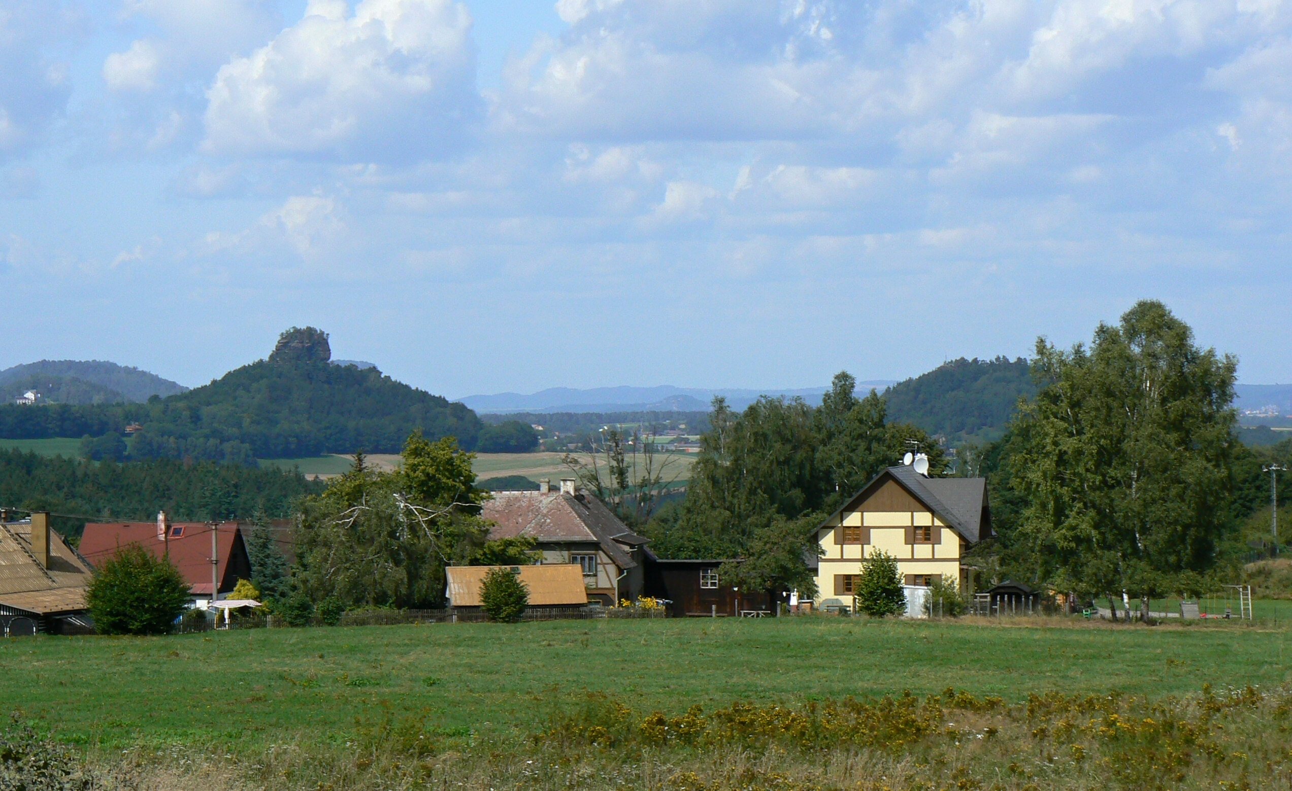 Janov in Děčín District and relicts of sandstone table mountains in Germany